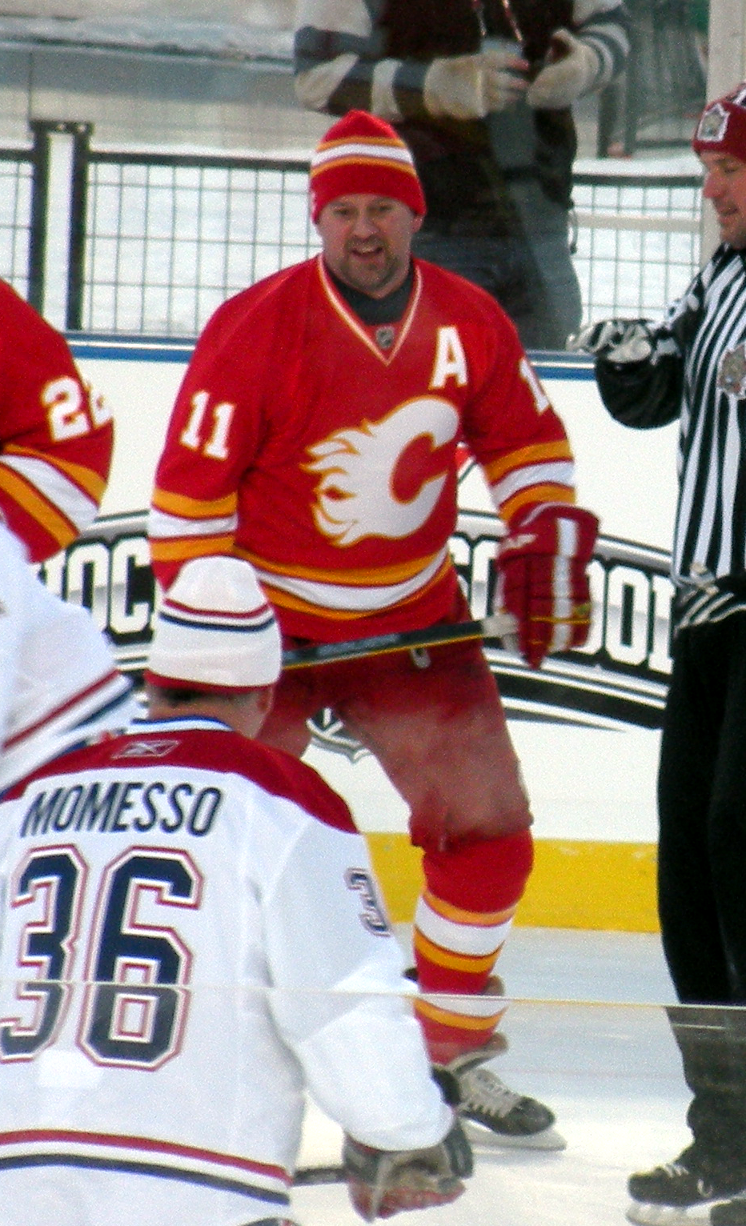 Former NHL player Colin Patterson during the alumni game at the 2011 Heritage Classic in Calgary